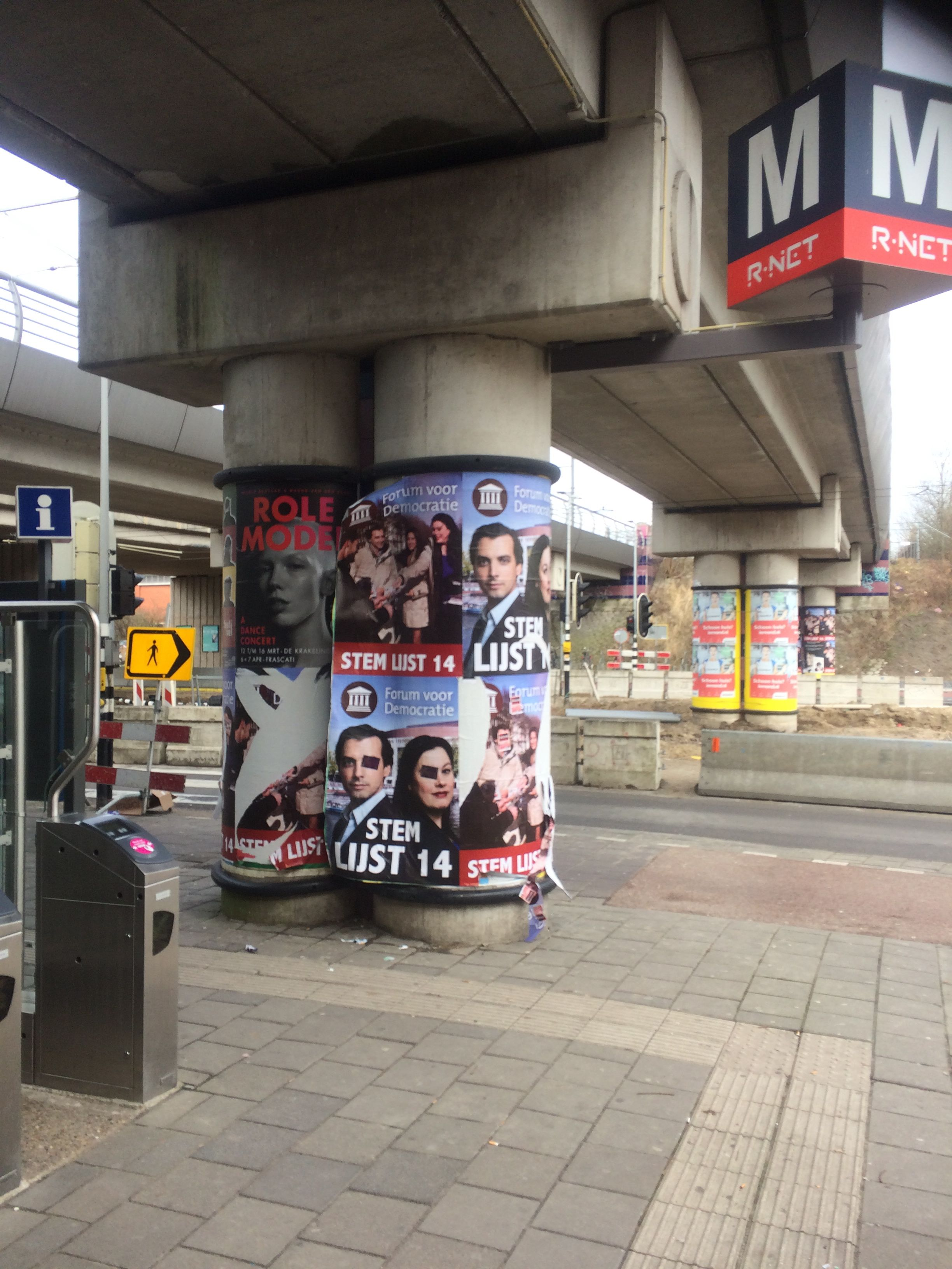 Posters of a national party were vandalized before the municipal elections in Amsterdam (March 2018)